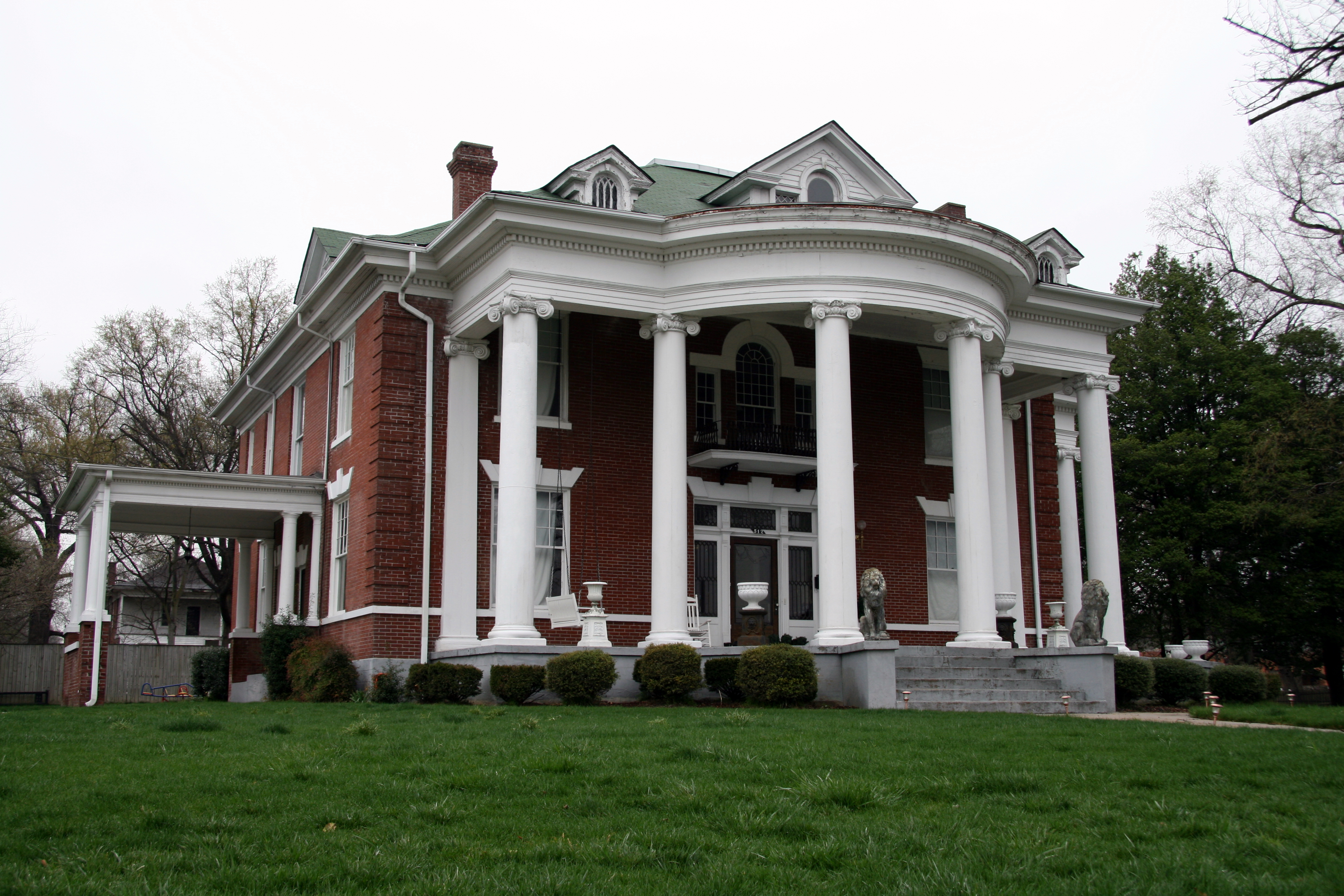 The Moody King House located at 512 Finley St., Dyersburg, TN.